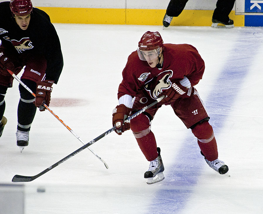 Phoenix Coyotes forward Kyle Turris carrying the puck with teammate Taylor Pyatt in pursuit during a team practice in September 2010.